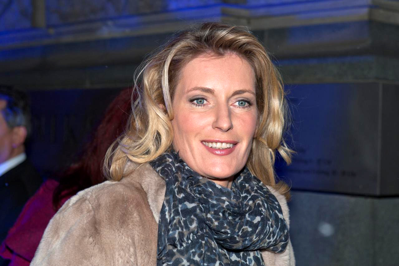 Maria Furtwängler, German actress, Berlinale 2012, ARD Degeto Blue Hour Party